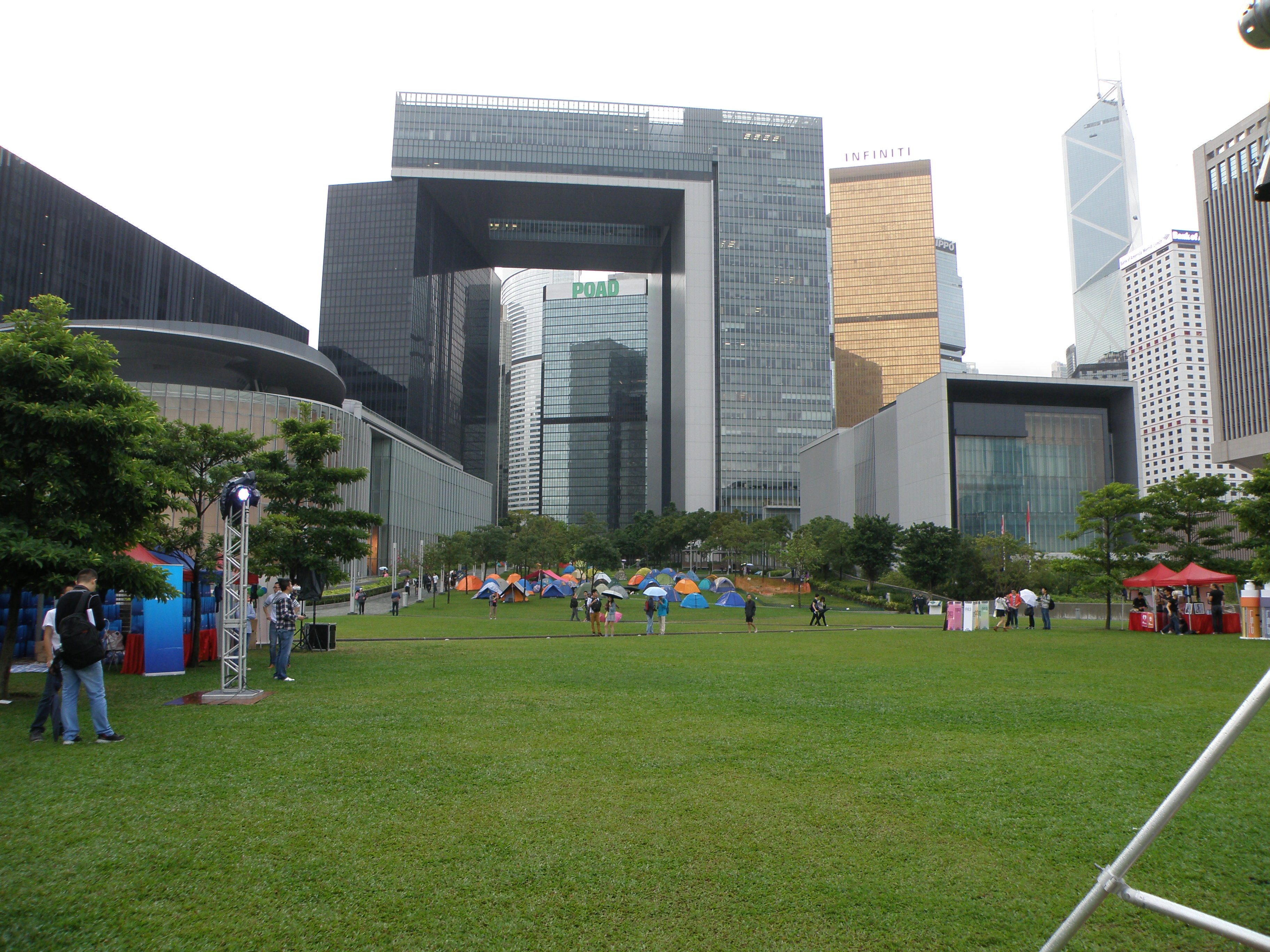 Hong Kong Central Government Offices during Umbrella Movement in November 2014.